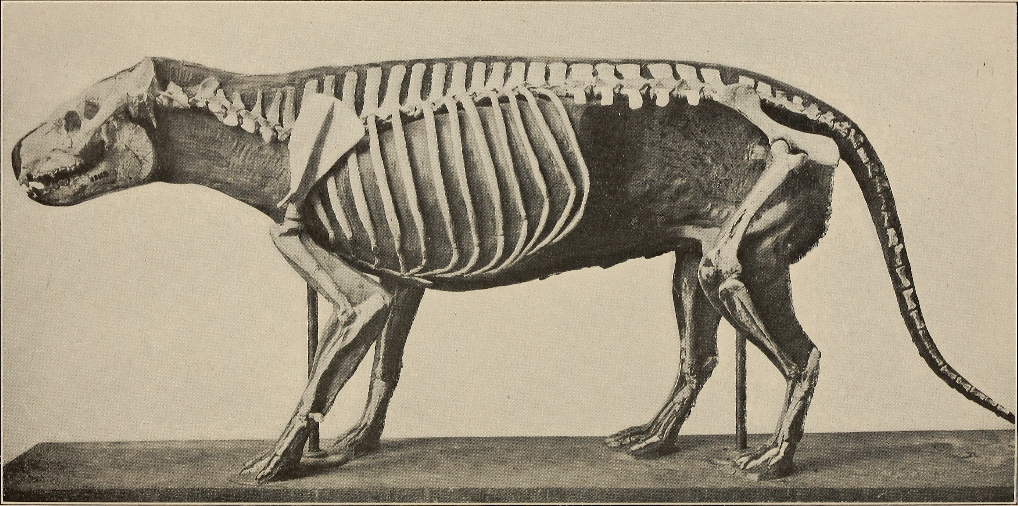 Title: The American journal of science Year: 1880 (1880s) Authors: Subjects: Science Publisher: New Haven : J. D. & E. S. Dana Text Appearing Before Image: Am. Jour. Sc Vol. il, 1921 PLATE I, Text Appearing After Image: '